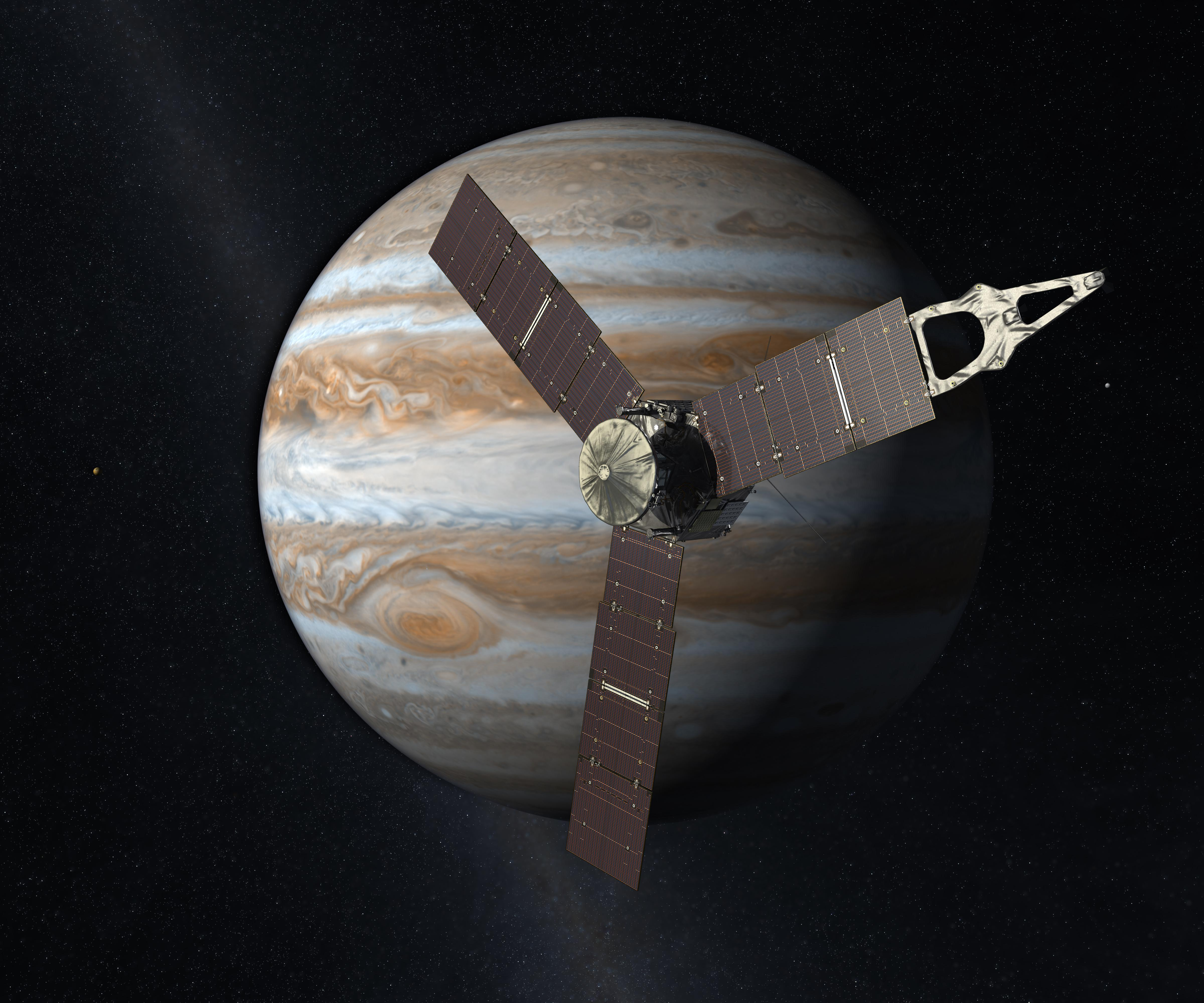 Artist rendition of JUNO orbiter at Jupiter. Note that Jupiter in this image may be mirrored from actuality.